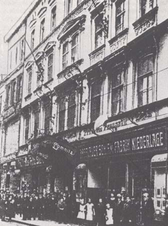 Hotel Lomnitz in Bytom (currently unexisting) Head office of Polish authorities during plebiscite period